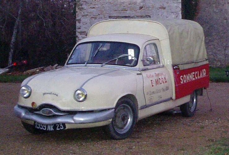 My father's car